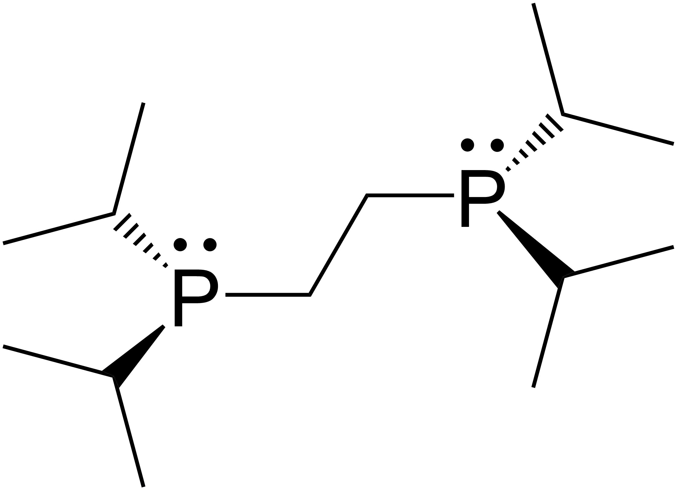 1,2-Bis(diisopropylphosphino)ethane 2D molecular structure